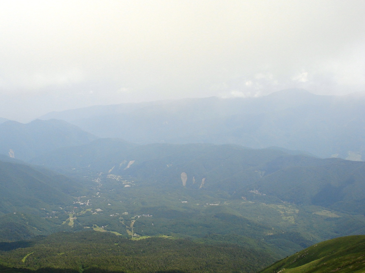 Norikura Highland shot from Mt.Norikura.